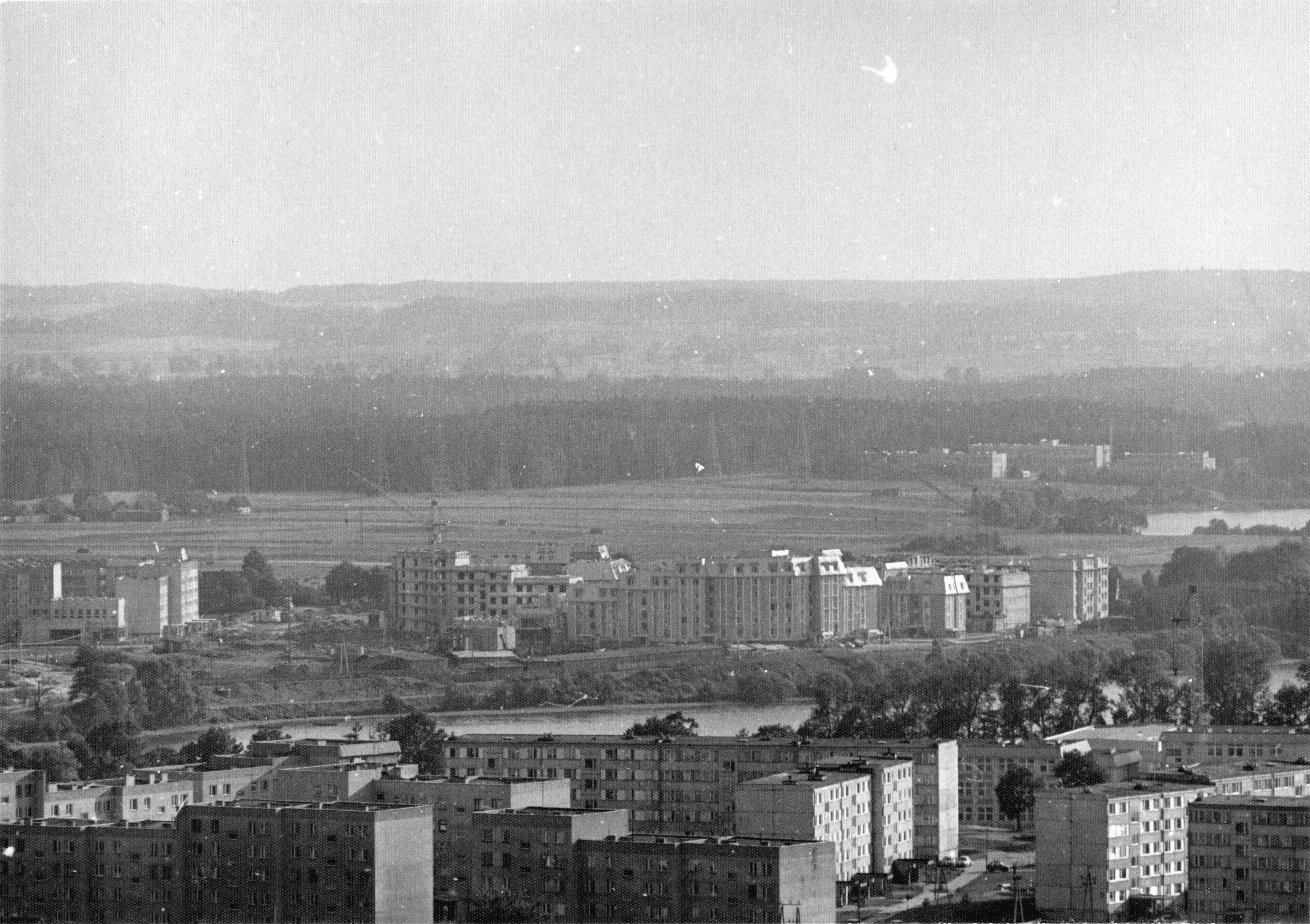 Ełk - - summer 1989 (scan of the original photo, digitaly improved contrast and brightnes)